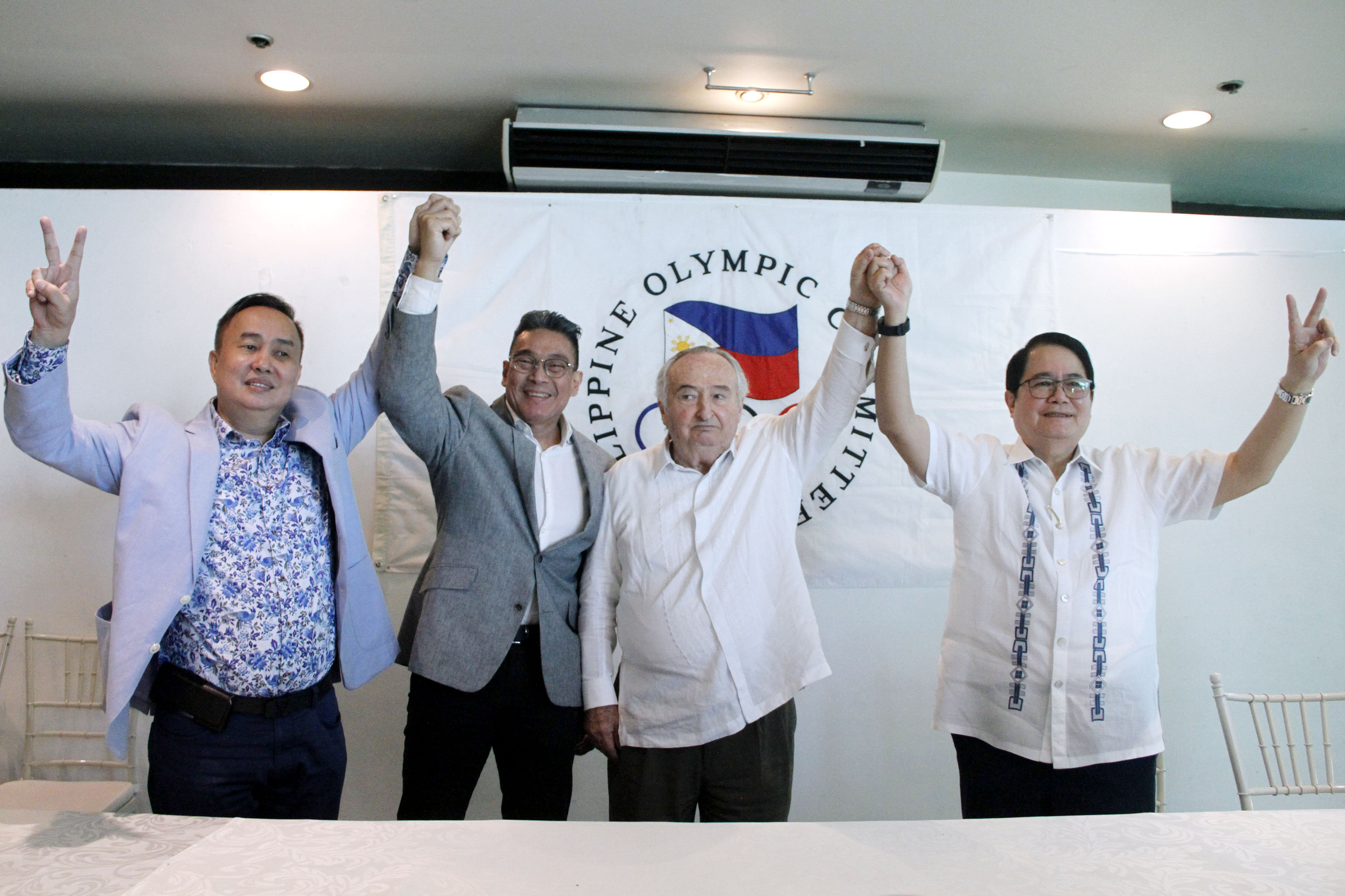 Newly-elected Philippine Olympic Committee (POC) Chairman Abraham Tolentino (left) and POC President Victorico Vargas gets their hands raised by former International Olympic Committee (IOC) member and POC Commission on Elections (Comelec) Chairman Francisco Elizalde (2nd right) and POC Comelec member Atty. Alberto Agra after the POC election held at the Wack-Wack Golf and Country Club in Mandaluyong City on Friday. Vargas replaced Jose Cojuangco Jr., while Tolentino will hold the formerly vacant seat. (PNA photo by Jess Escaros Jr.)